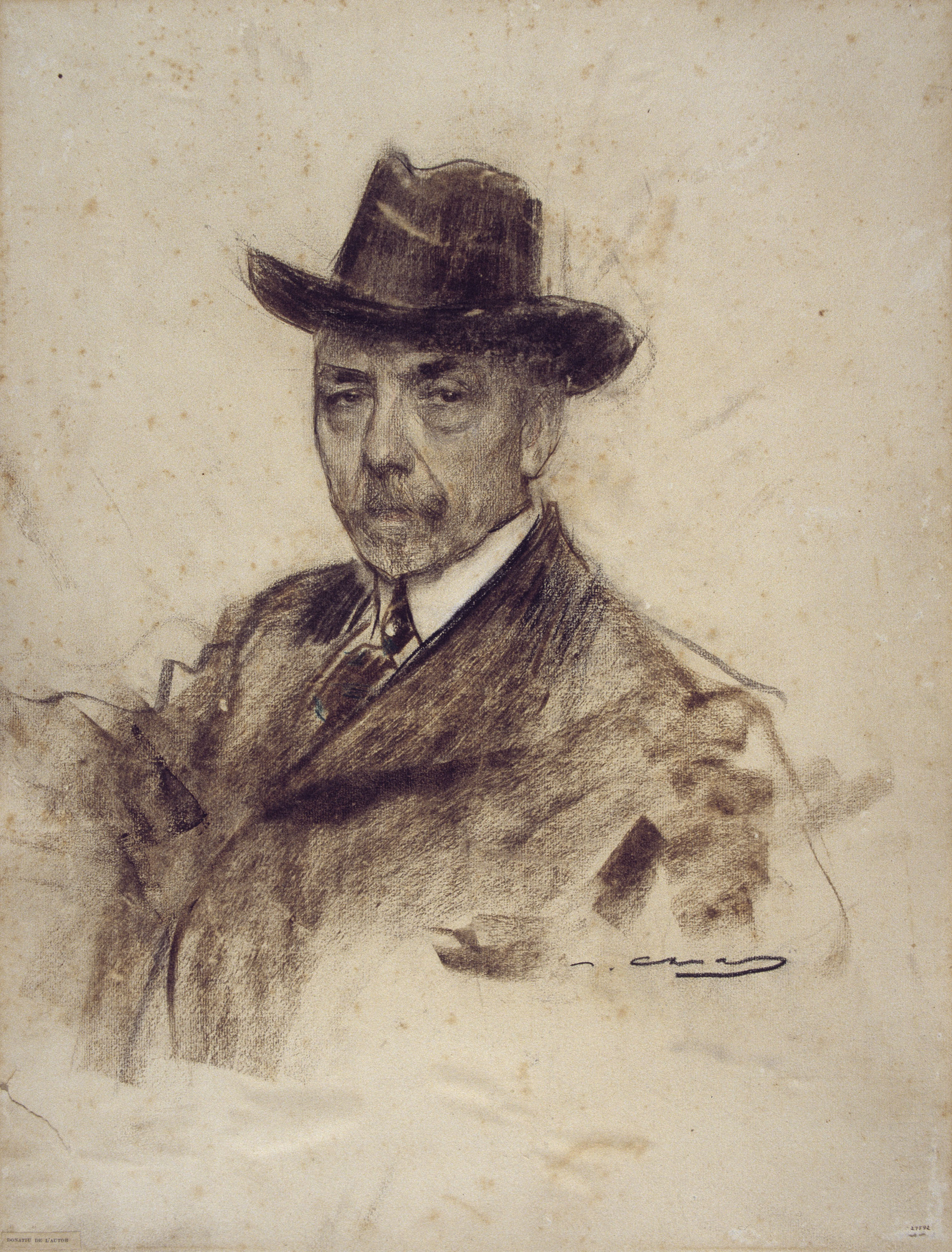 Portrait by Ramon Casas conserved at MNAC in Barcelona. Imagen 078